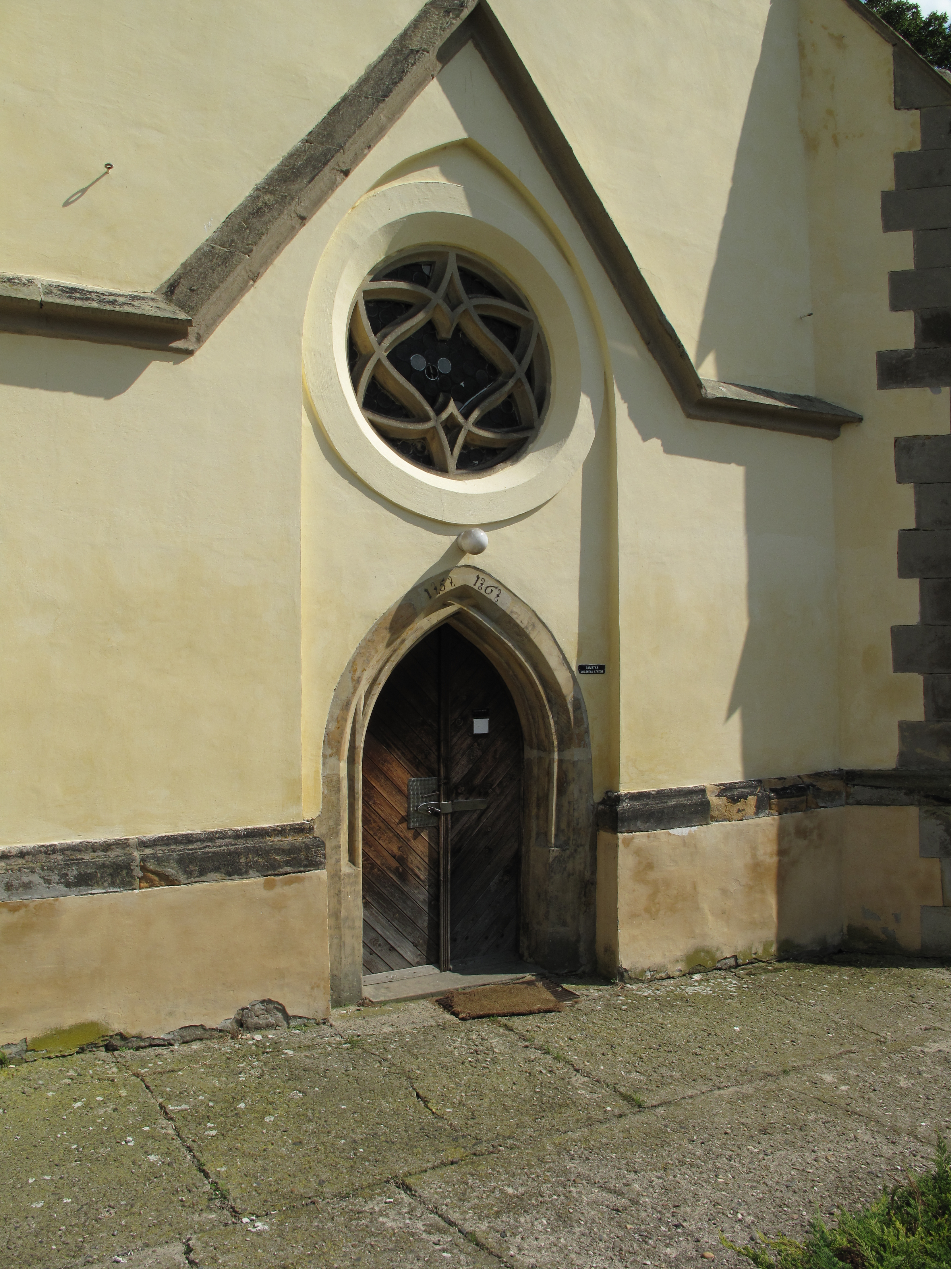 Entrance portal of the church of St. Nicholas in Velké Žernoseky village, Litoměřice District, Czech Republic.